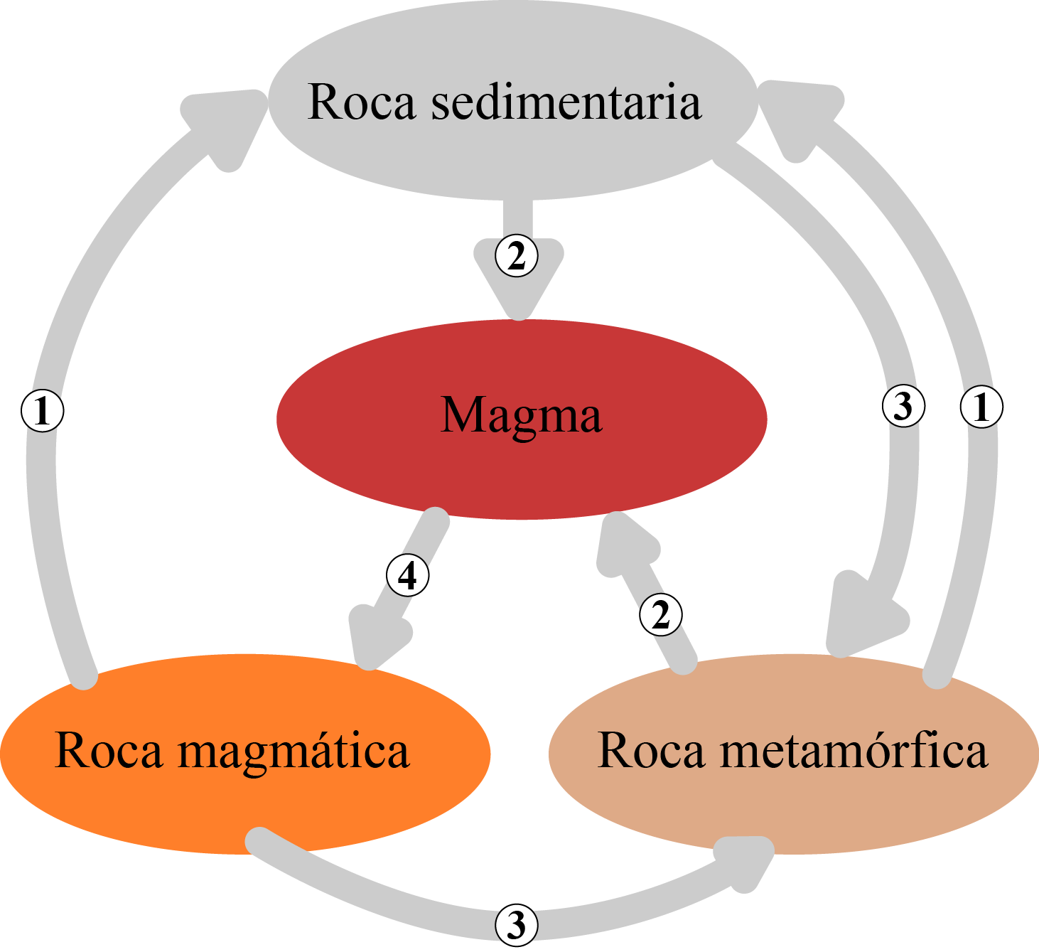 Rocks creation